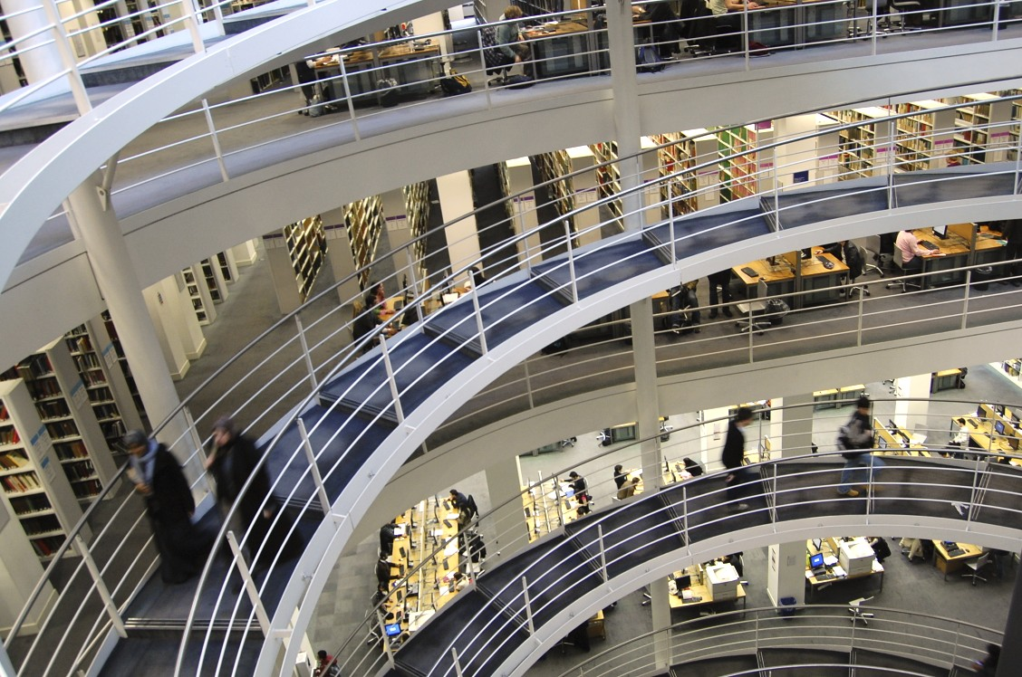 LSE Library, The British Library of Political and Economic Science